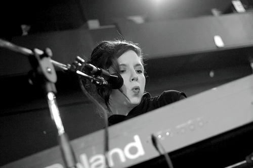 Jolie Holland performing in the Kings Arms Tavern, Auckland, New Zealand